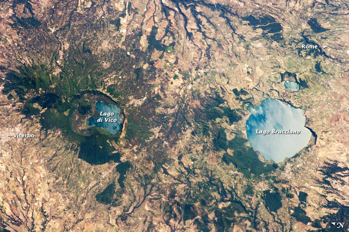 Caldera Lakes to the North of Rome